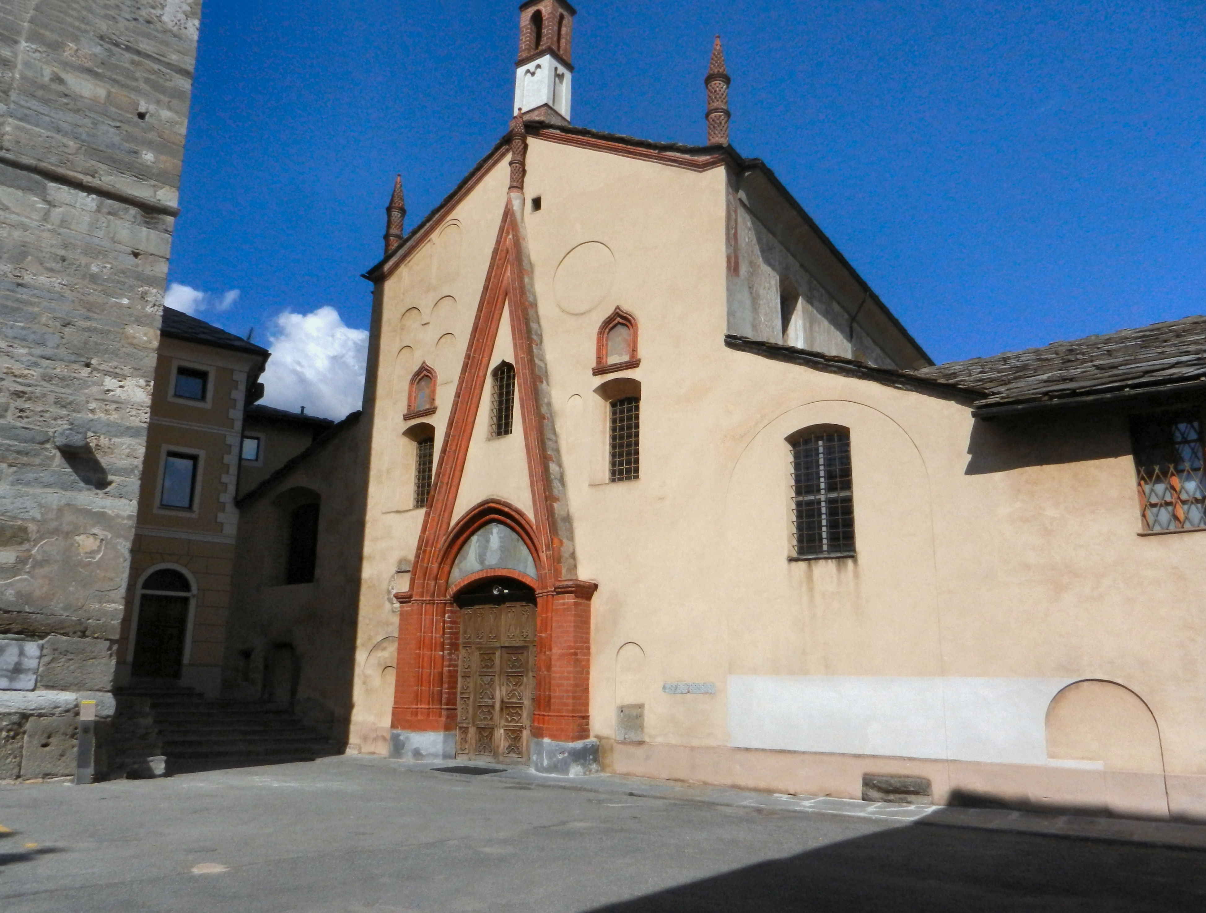 Aosta, Italy, church of Saint Ursus, facade